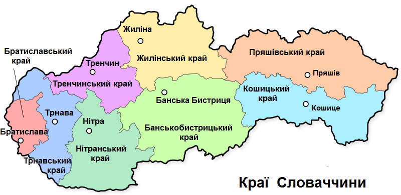 Krajs of Slovakia with ukrainian descriptions